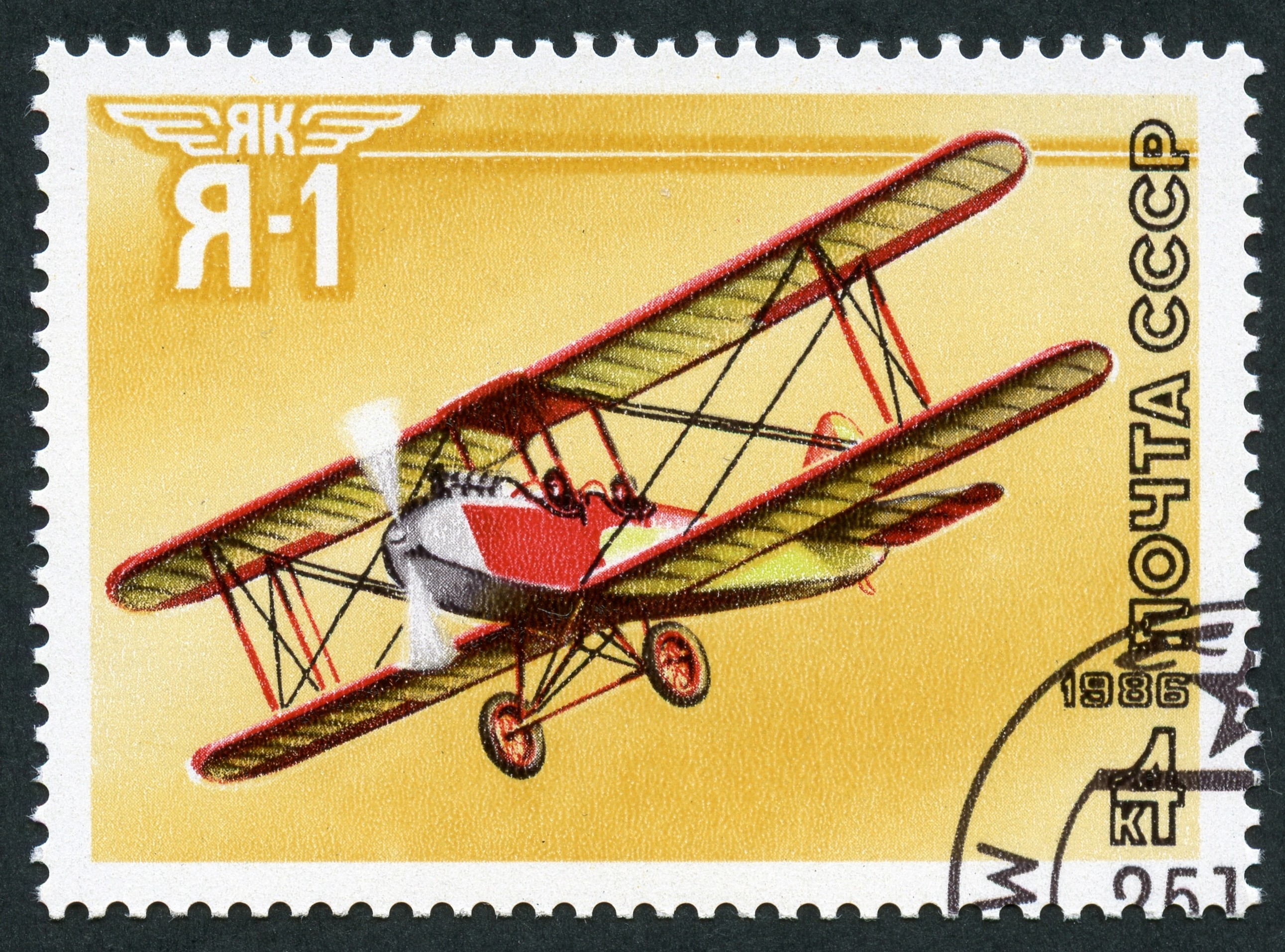 A USSR stamp